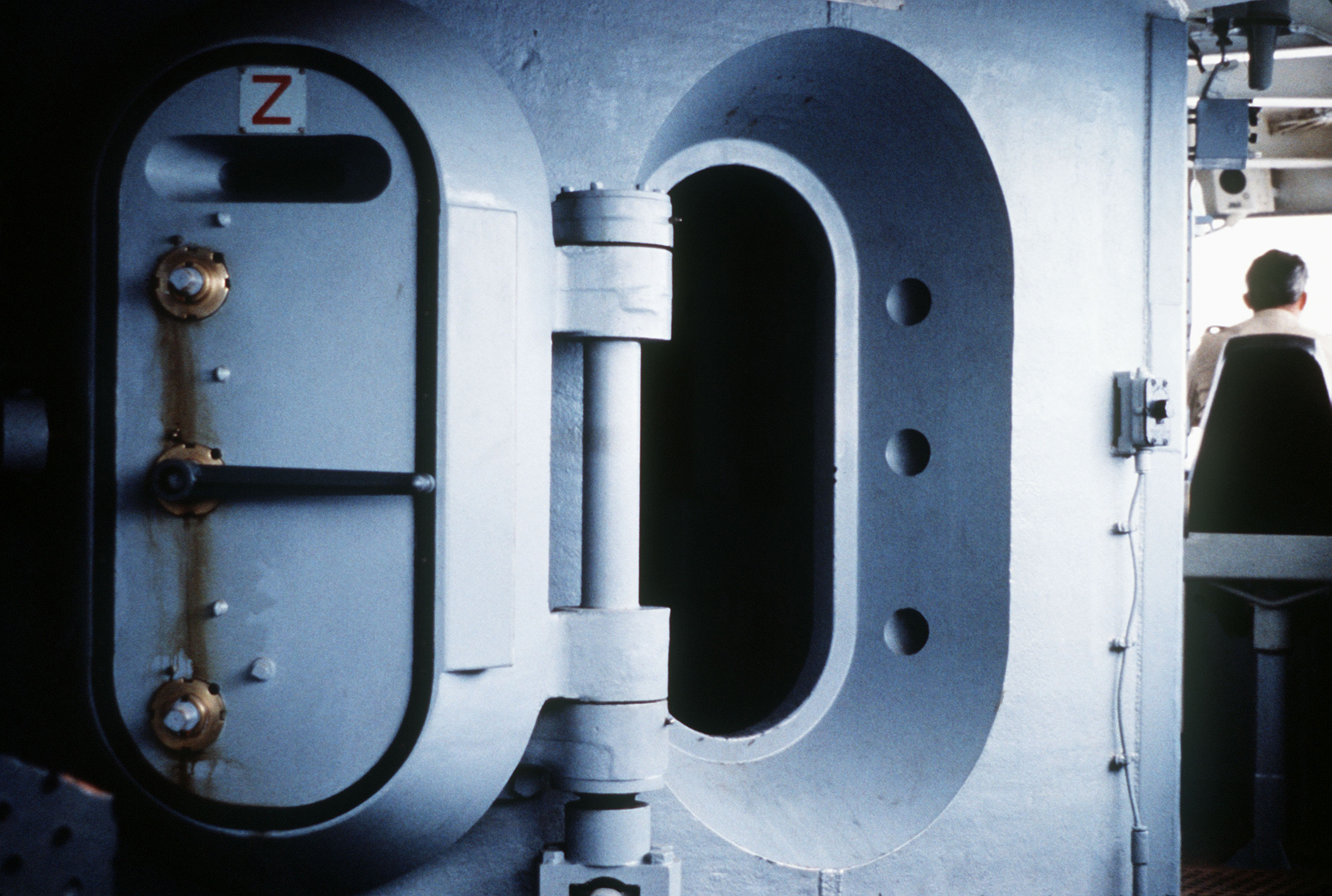 A view of the hatch and armor citadel of the battleship NEW JERSEY (BB 62). The armor protecting the pilot house is more than 17 inches thick at this point. The NEW JERSEY is being towed from Bremerton, Washington, to the Long Beach Naval Shipyard, California, where it will undergo reactivation/moderization construction.